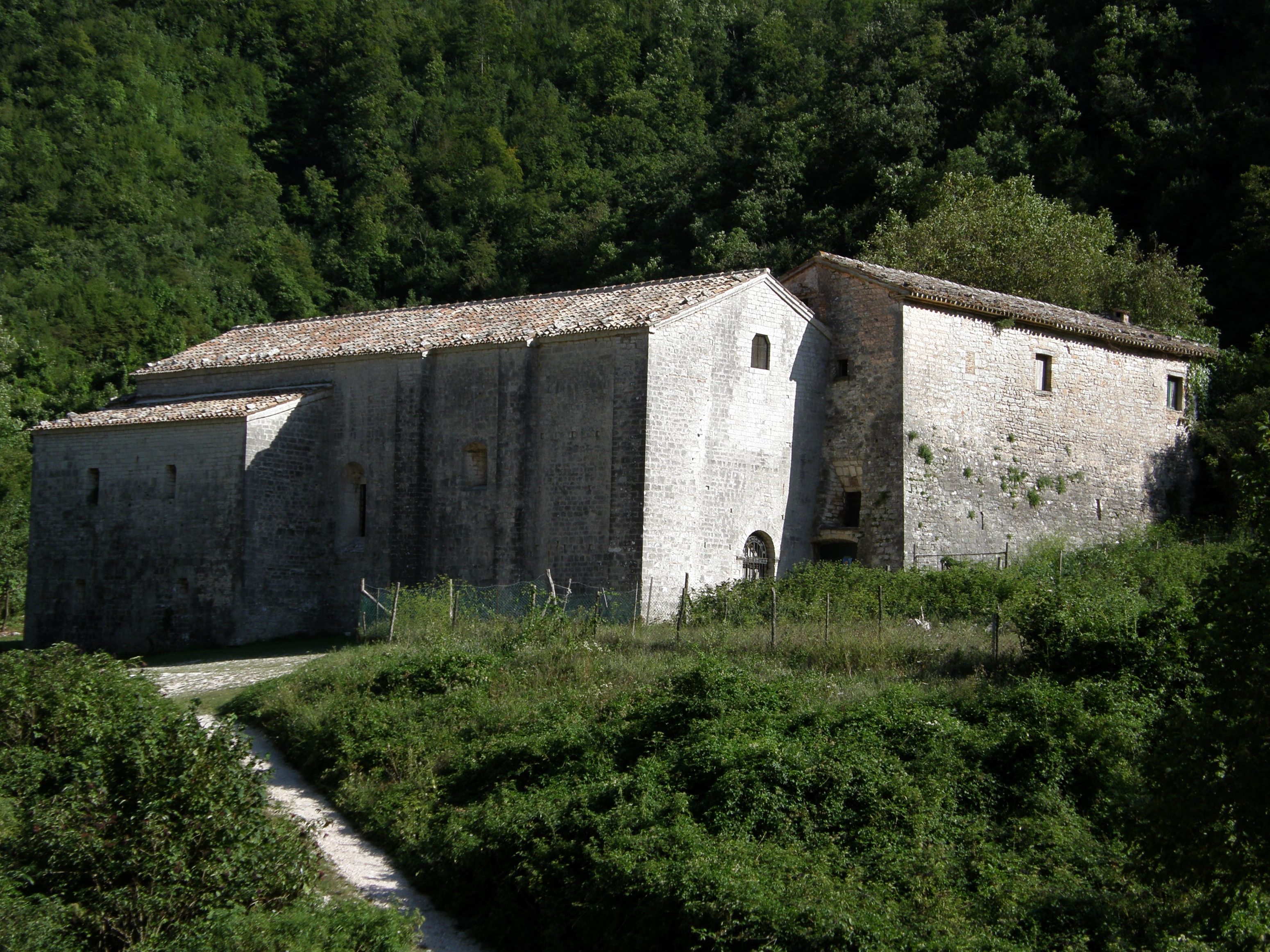 Scheggia, Italy - Monte Cucco, Abbazia di Santa Maria di Sitria